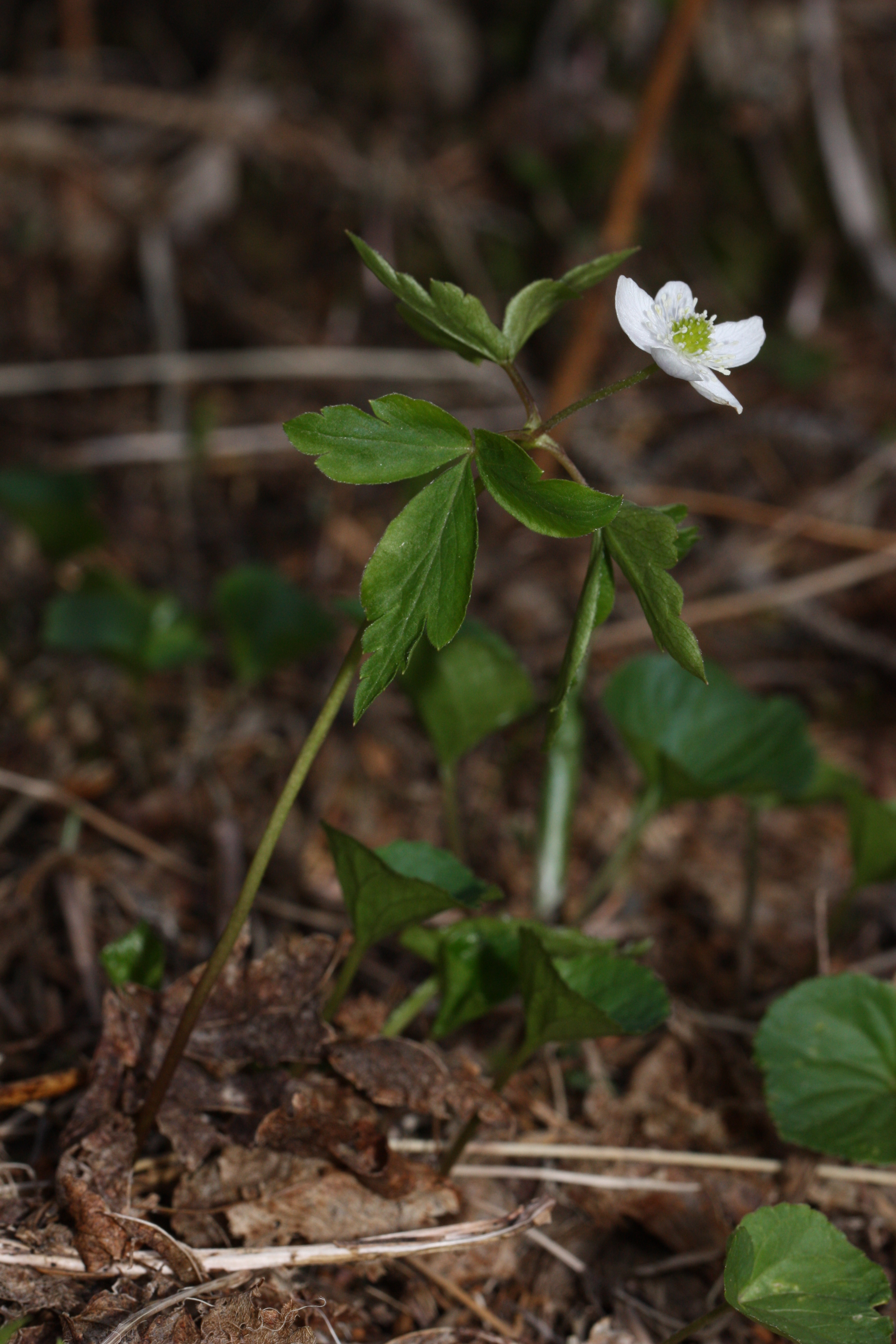 Lyall's Anemone, Little Mountain Anemone or Thimbleweed Viewpoint location: Saddle Mountain Trail, Saddle Mountain State Natural Area Viewpoint elevation: 860 meter (2821 ft) Location source: Garmin GPSmap 60CSx Location Datum: WGS84